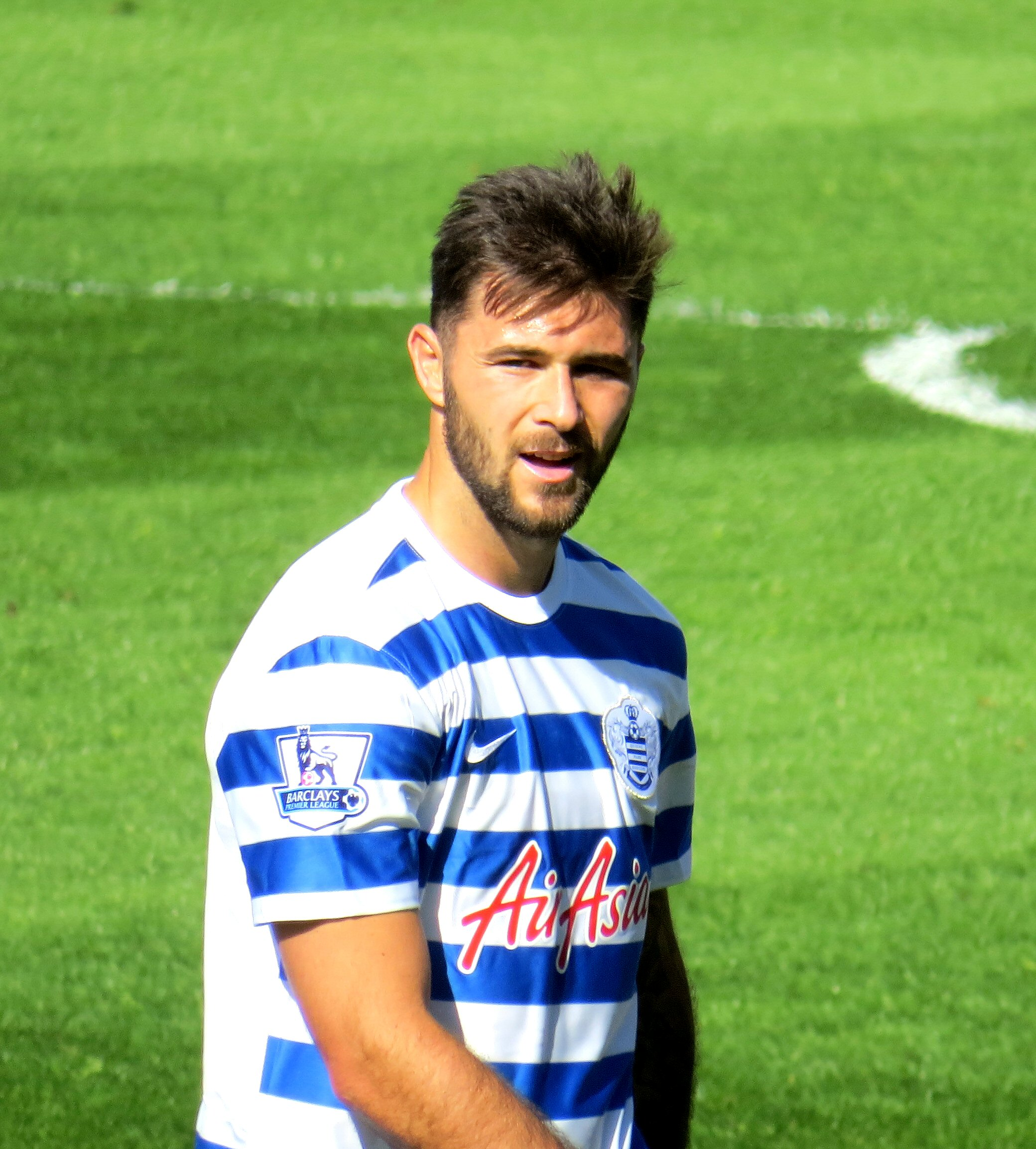 Charlie Austin plays v Newcastle United in the last QPR home game of the 2014-15 season